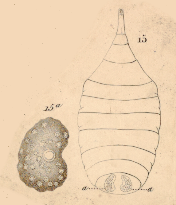 Original legend in french : Fig 15 : Conops larva with spiracles (a a) Fig 15 a. spiracles